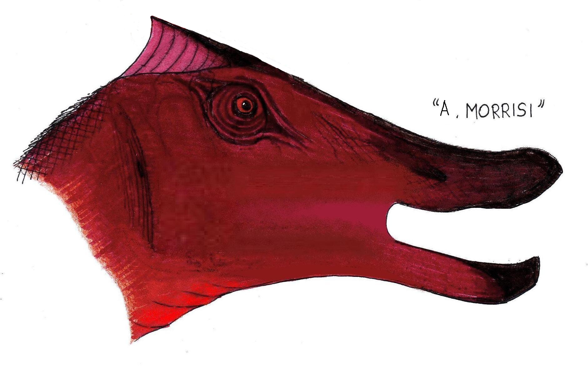 Recreation of a Augustynolophus